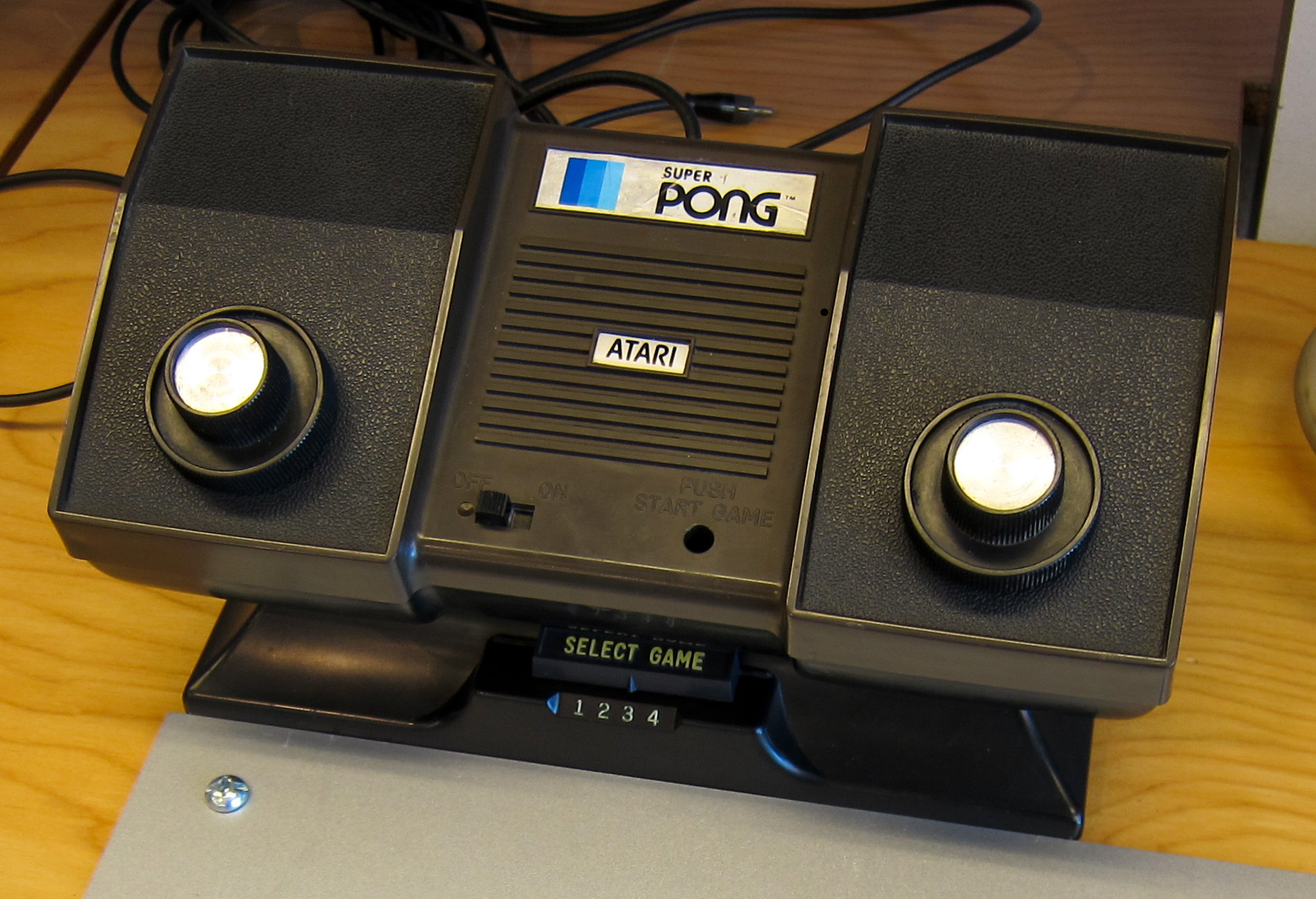 Atari Super Pong (model C-140) - First era console of 1976. Model C-140, 4 Pong Games (Catch, Solitare, Super Pong and Pong), Two Built-In Paddles, Made In USA